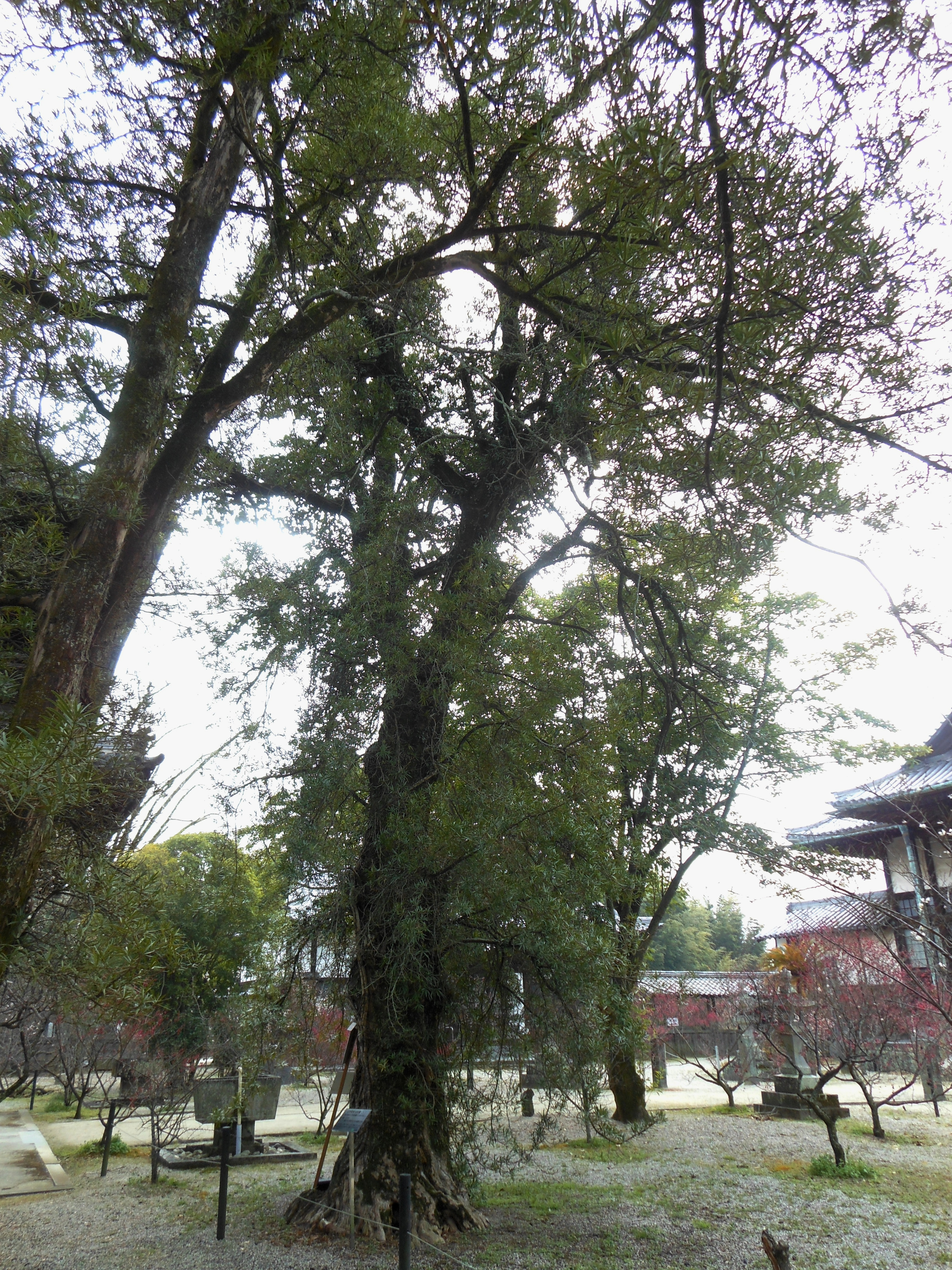 "Hachitarō-maki", an about 600 year old Buddhist pine (Podocarpus macrophyllus) tree in Kōden-ji Temple, Saga City.